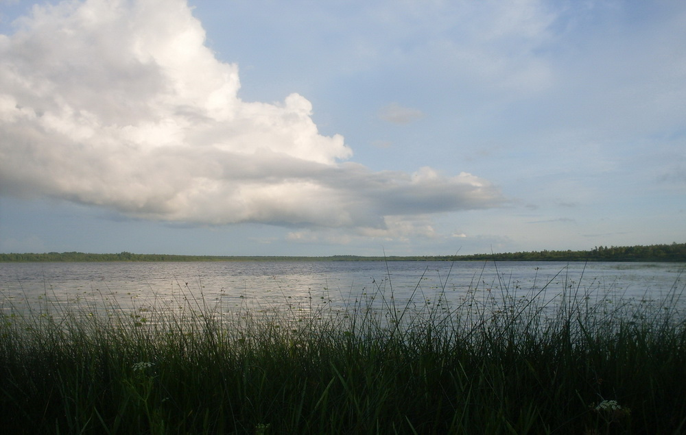 The picture of the Palik lake located in Bjarezinski reserved area in Belarus